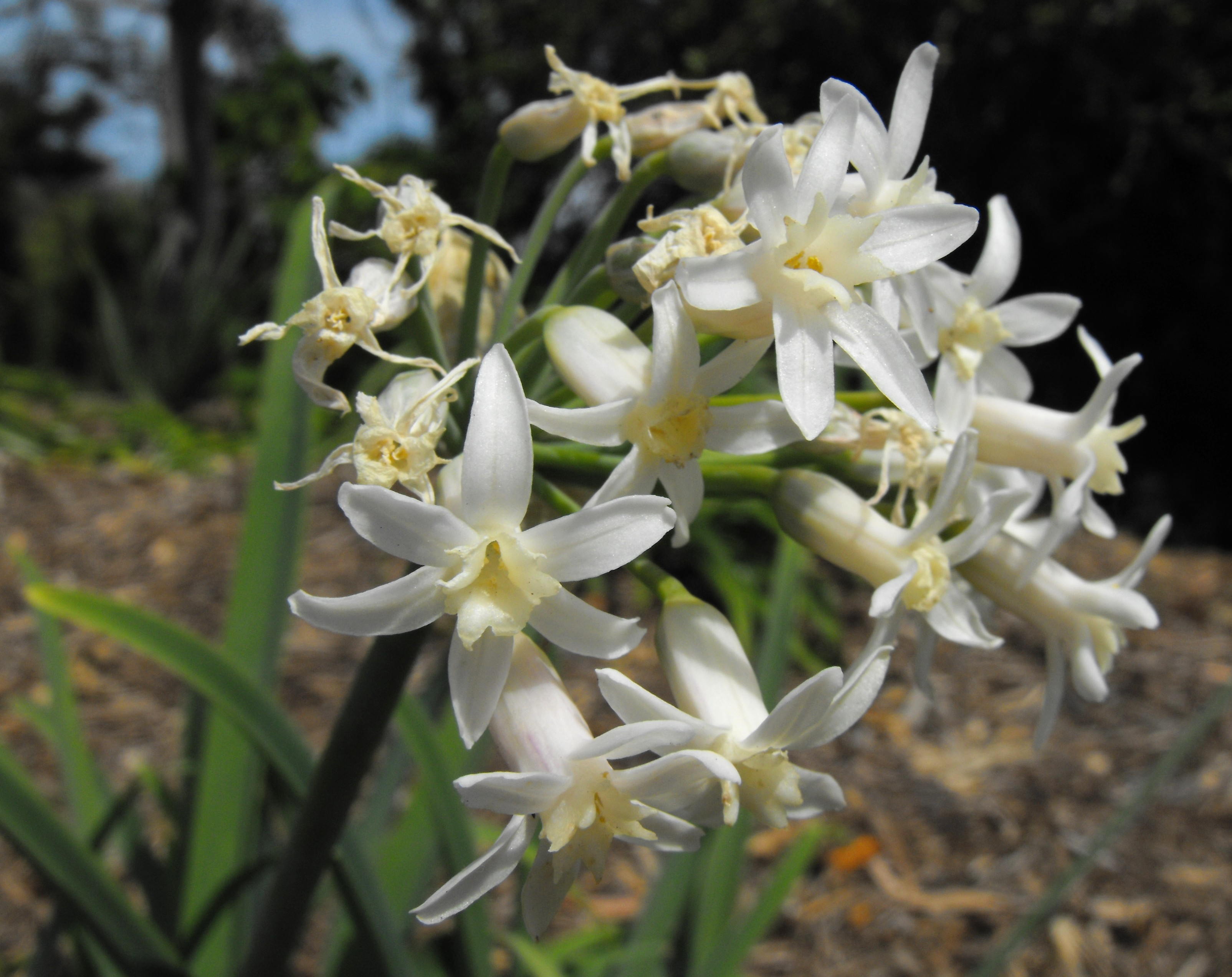 Tulbaghia simmleri at San Diego Botanic Garden in Encinitas, California, USA. Identified by sign.